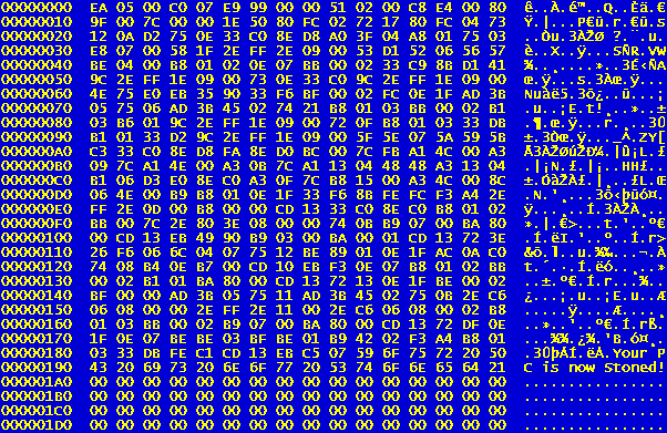 A screenshot of a hex editor opening the Master Boot Record of a computer infected with the Stoned virus, showing the text "Your PC is now Stoned!"